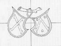 Fust and Schöffer, printer's device, does not appear in their Mainz psalter